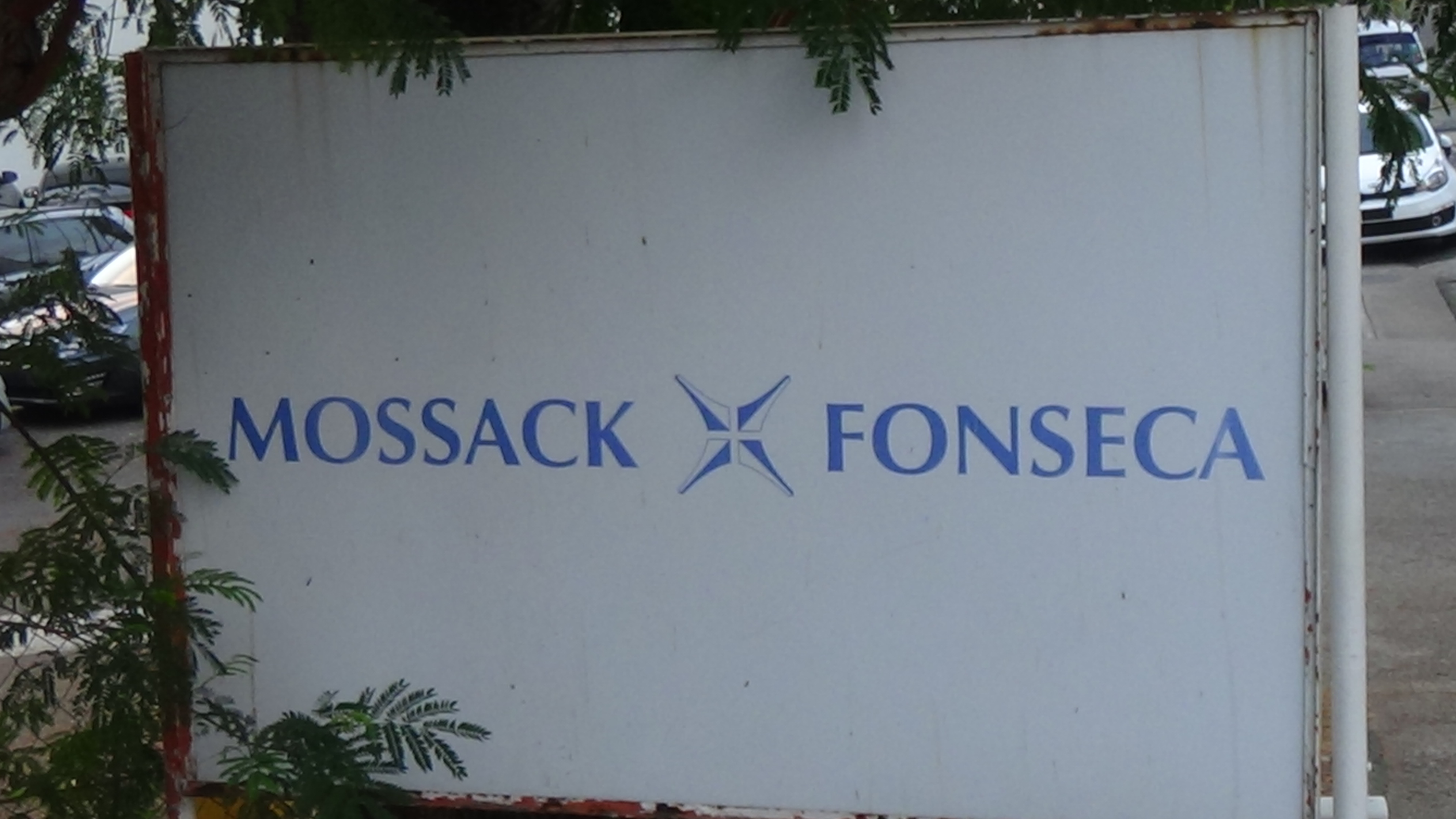 Mossack Fonseca sign